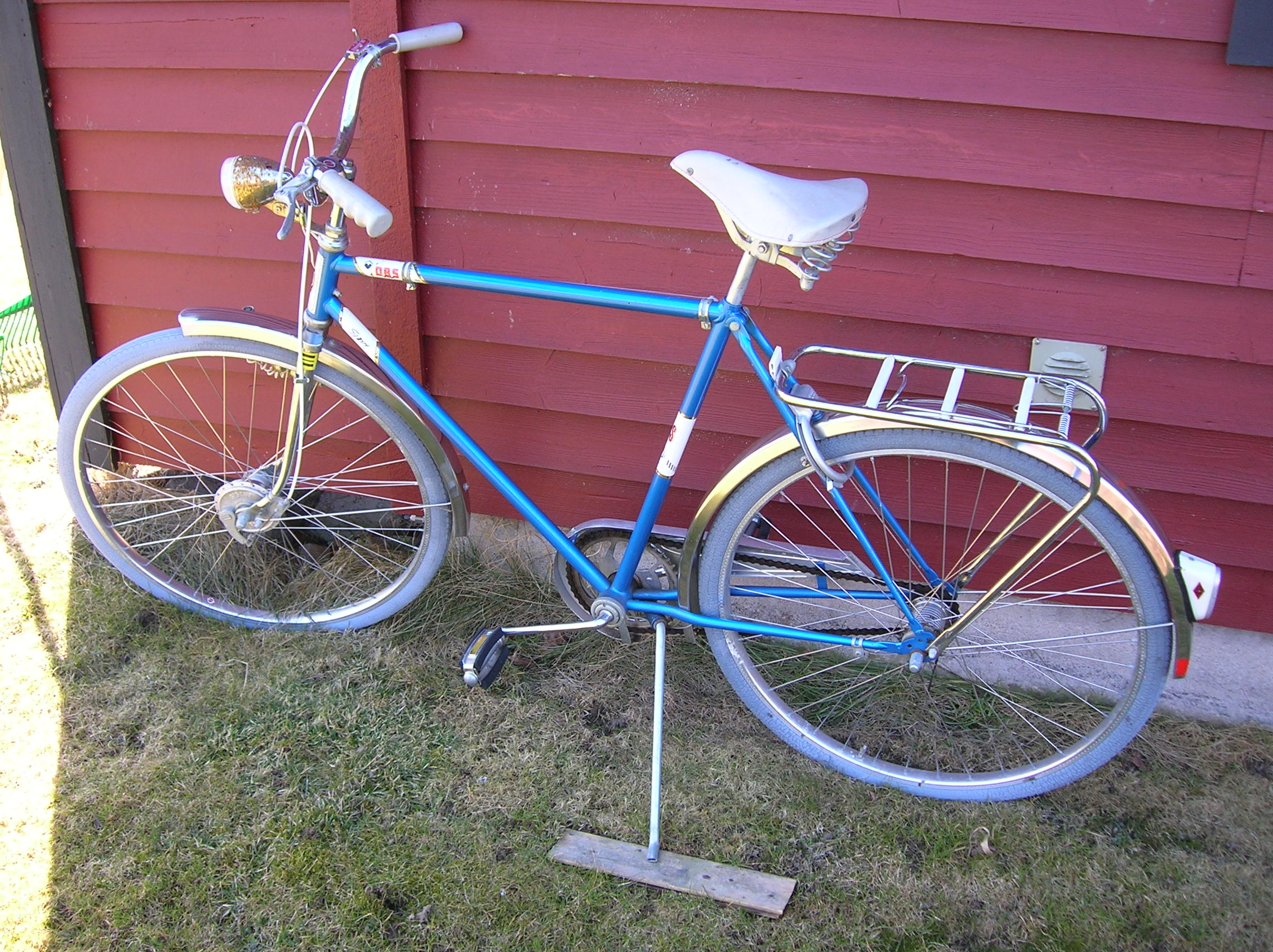 A bicycle